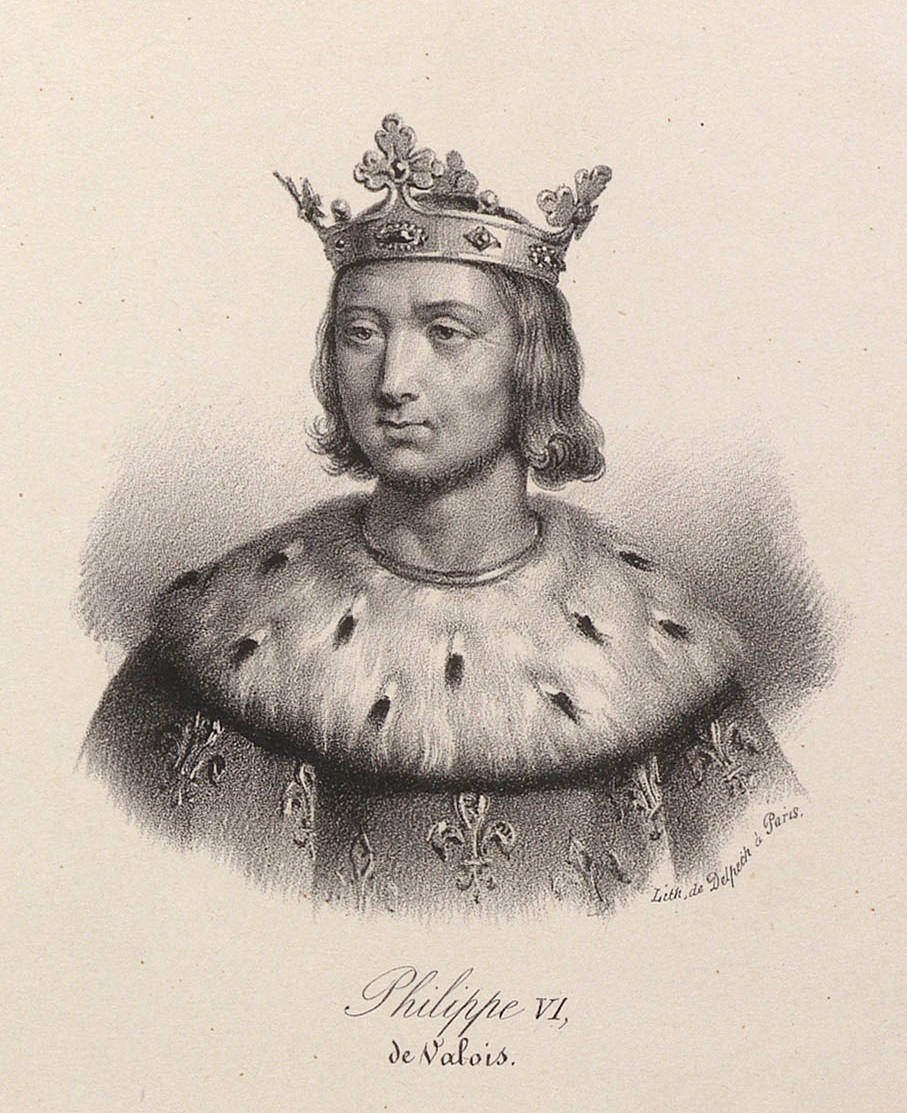 Philip VI of France (1293-1350)